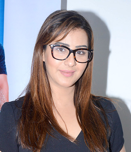 Shilpa Shinde was spotted interacting media after winning Bigg Boss 11.